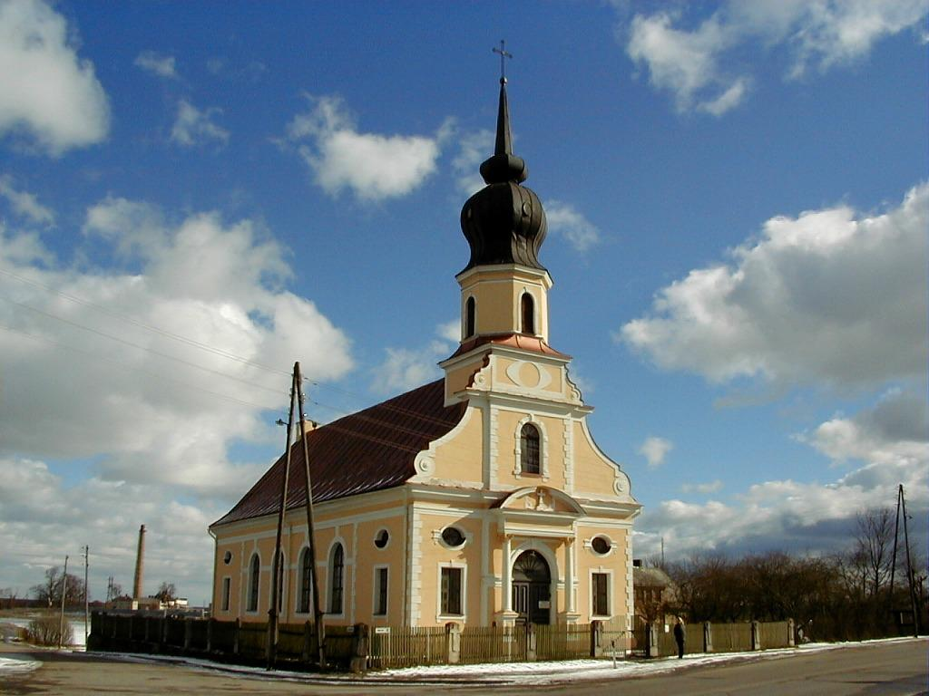 Dole-Ķekava Saint Anne Evangelical Lutheran Church